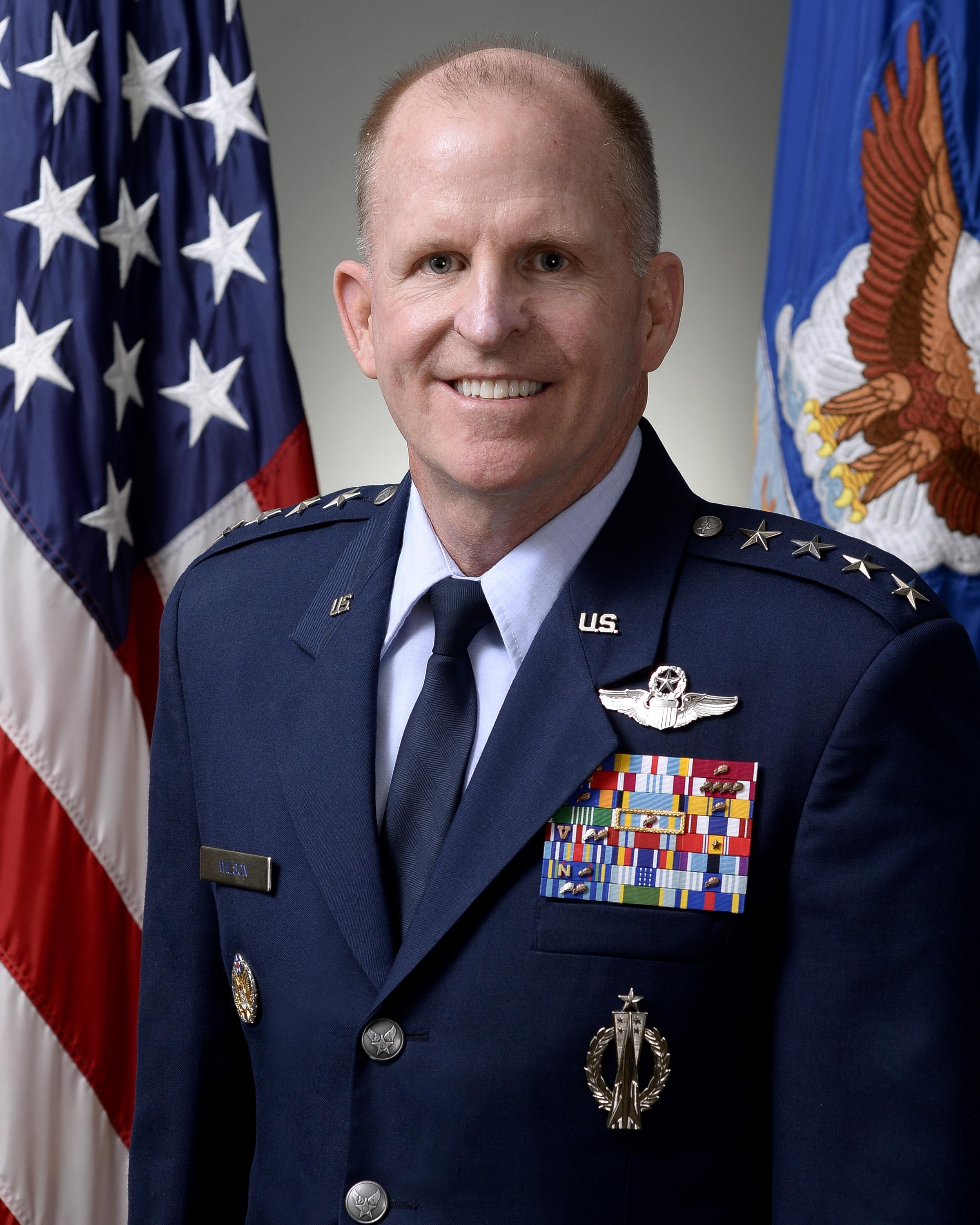 General Stephen W. “Seve” Wilson is Vice Chief of Staff of the U.S. Air Force, Washington, D.C.